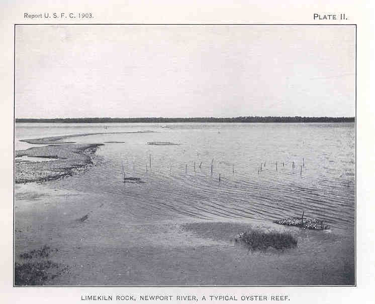 Limekiln Rock, Newport River a Typical Oyster Reef Subject: Oyster fisheries Geographic Subject: United States--North Carolina--Newport River Tag: Shellfish